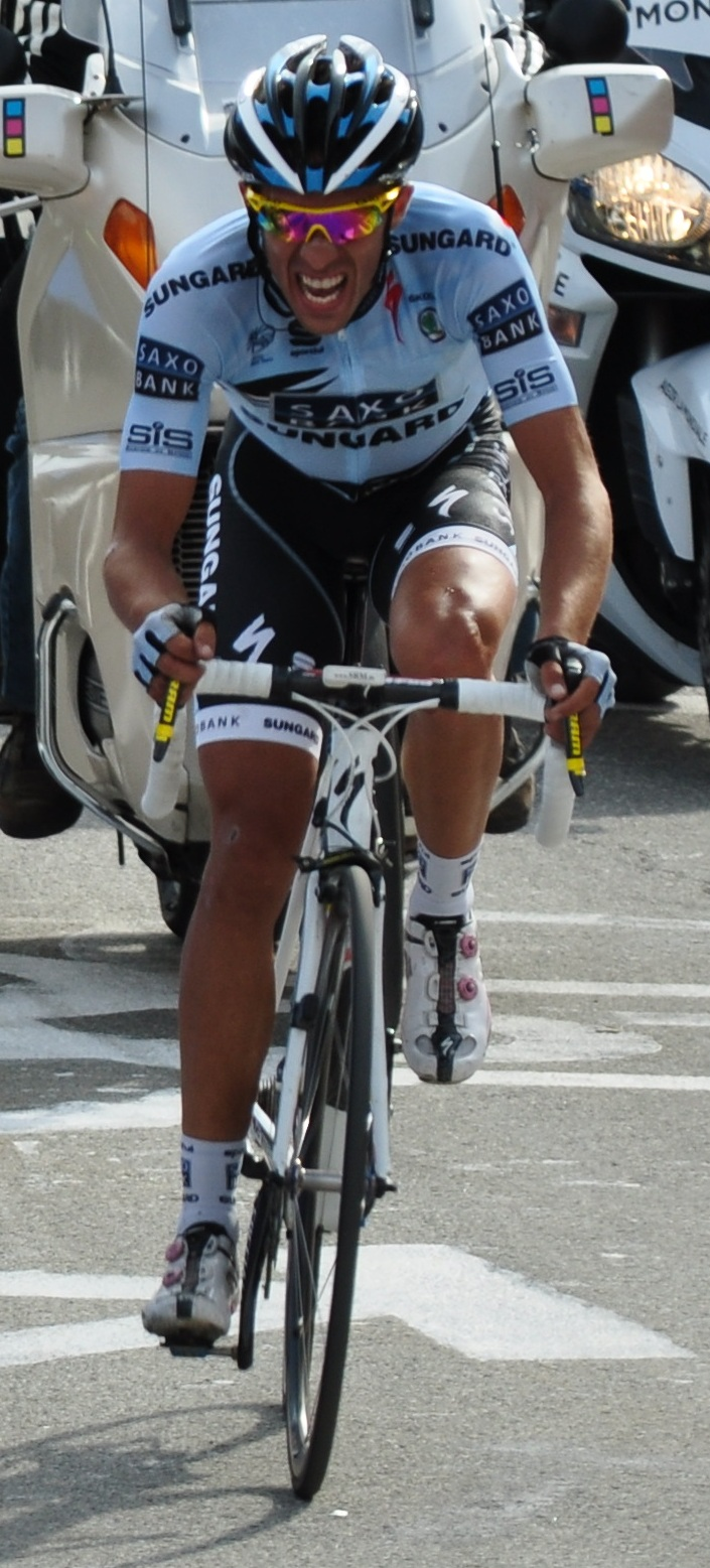 Alberto Contador approaches the finish line to stage 19 of the 2011 Tour de France. He finished the day third.